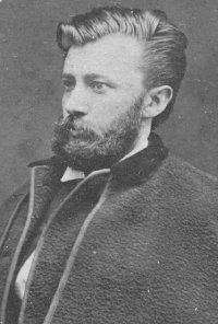 Harald Brix (1841-1881) Danish socialist